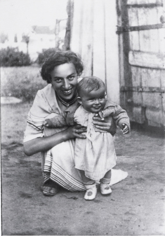 Cypora Zonszajn (12 April 1915 – 1942) with Rachela (Rachel) Zonszajn orphaned in 1942 during the Holocaust in occupied Poland. Family photograph taken before the murderous liquidation of the Siedlce Ghetto in 1942.